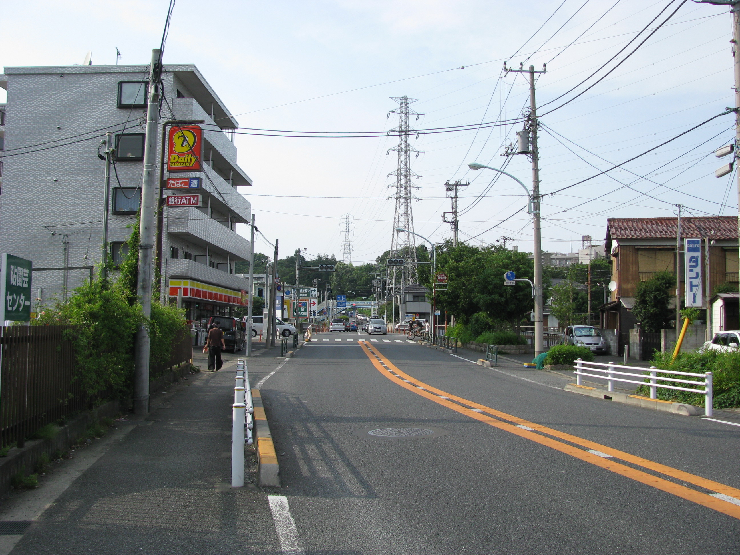 The Tokyo Prefectural Route 11. This location is Kitami in Setagaya, Tokyo, Japan.